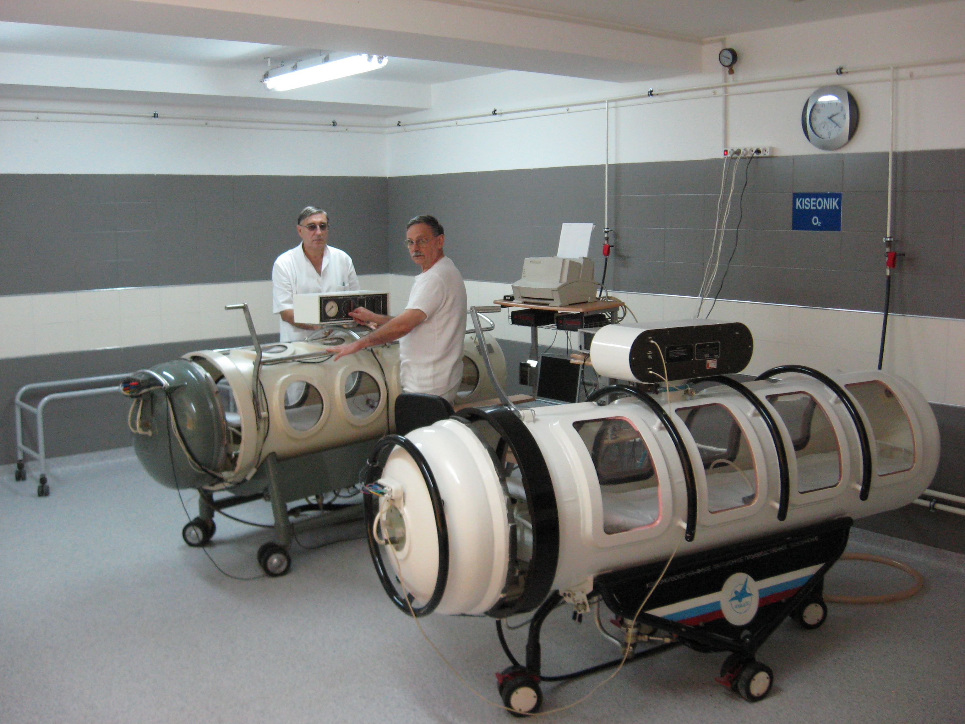 Monoplace hyperbaric chamber in Nis Hyperbaric center, Serbia